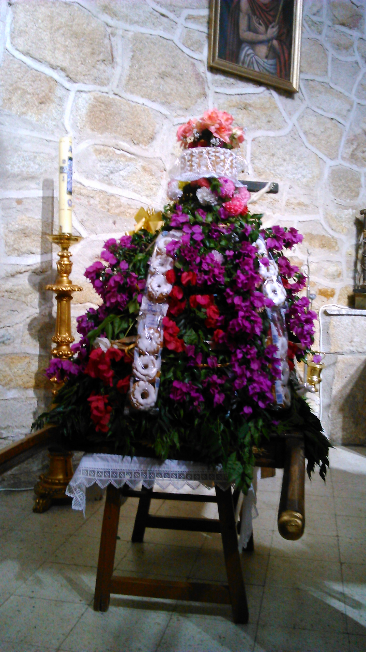 Ramo de Ofrenda a San Lucas